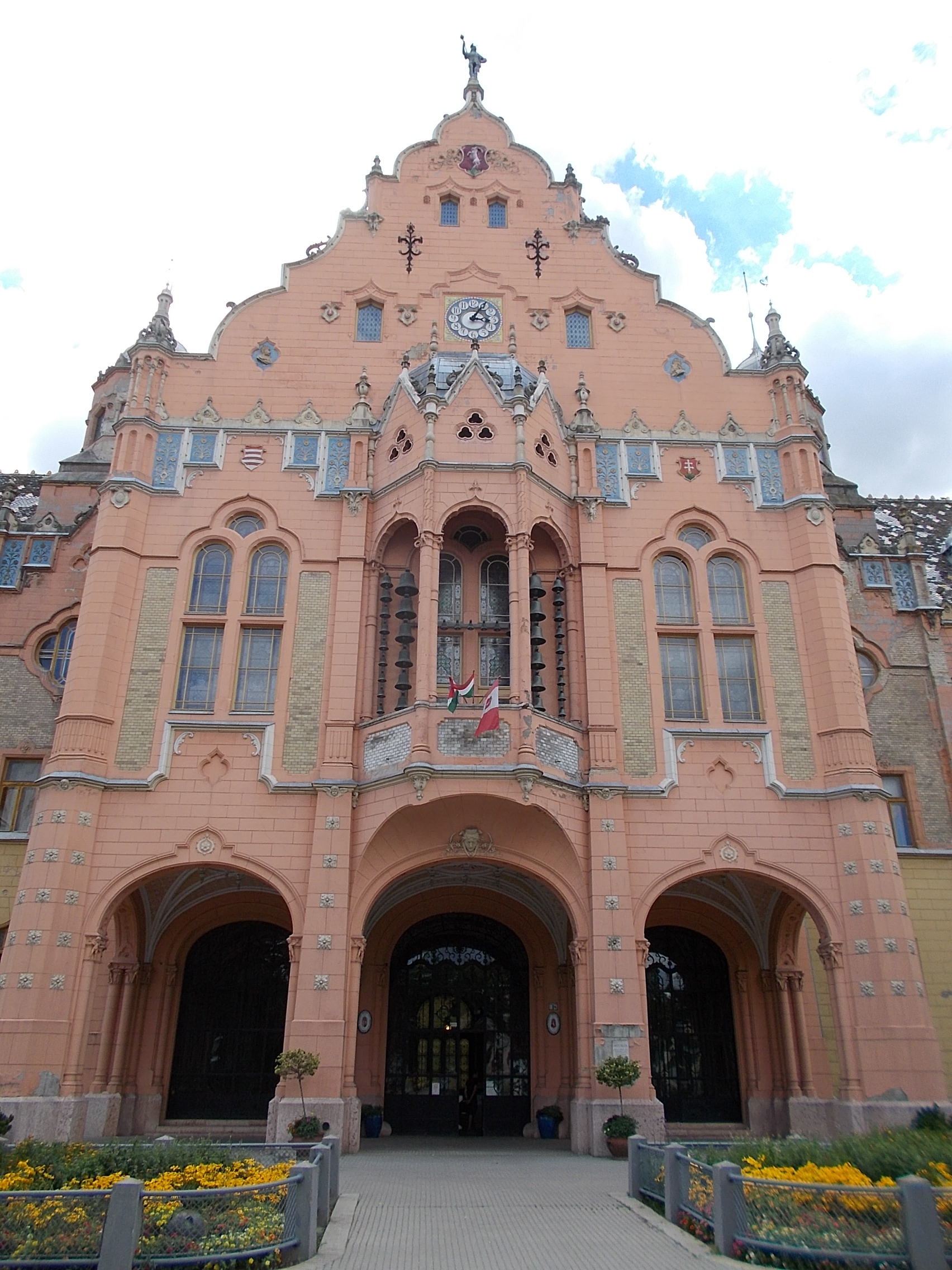 Kecskemét City Hall. - Kossuth Sq., Belváros, Kecskemét, Bács-Kiskun County, Hungary.